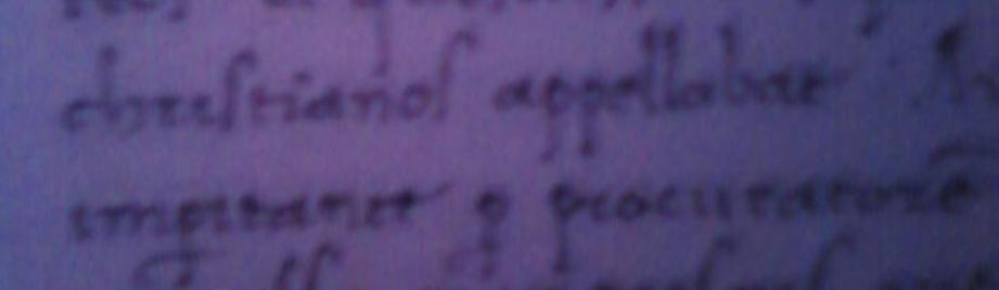 A manuscript containing Cornelius Tacitus' Annales 15:44 - "christianos appellabat ... imperitante per procuratorem".